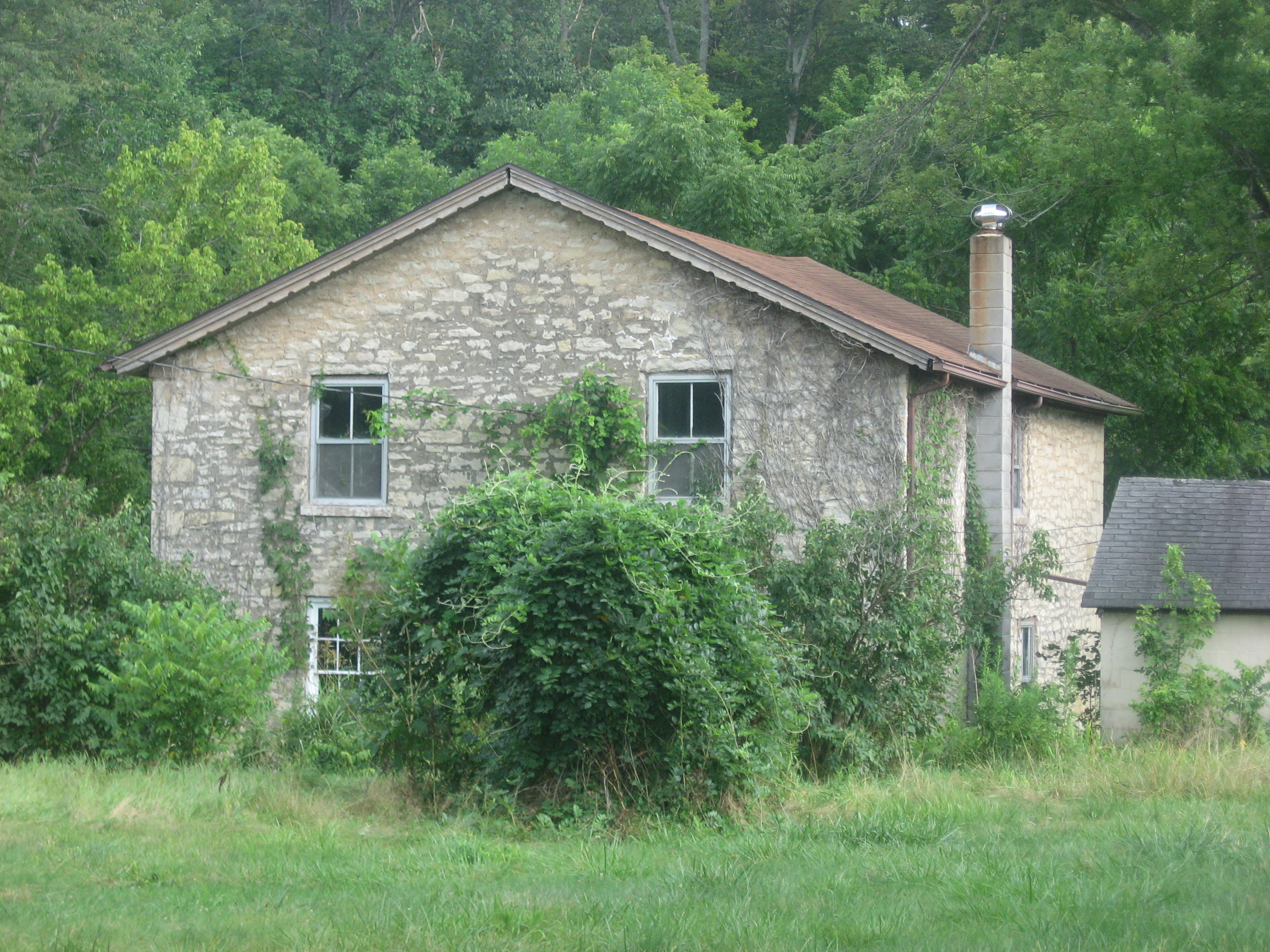 Front and western side of the Lyman and Asenath Hoyt House, located at 7147 State Road 250 at Lancaster in Lancaster Township, Jefferson County, Indiana, United States. Built in 1850, it is listed on the National Register of Historic Places.